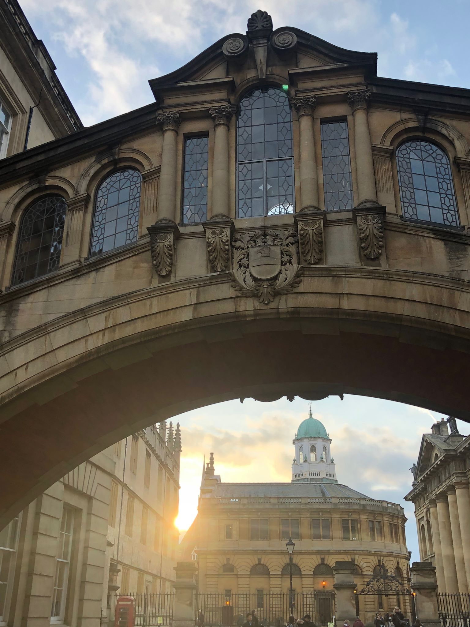 Bridge of Sighs and Sheldonian Theatre in the background, Oxford, UK